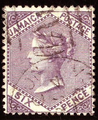 6 pence Jamaica first issue, 1860. Oval & circle cancels. SG N°5.